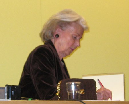 Kyllikki Forssell, Finnish actress, at the Helsinki Book Fair in 2007.